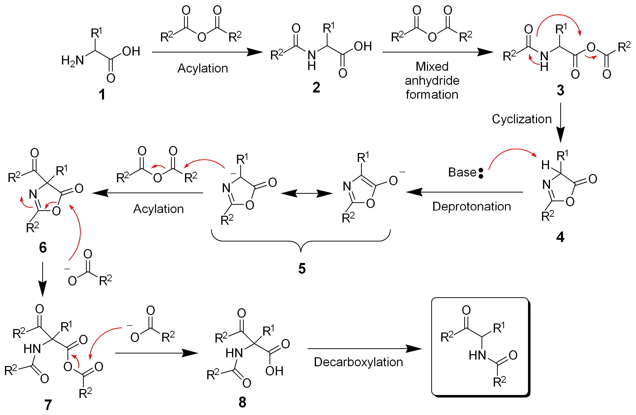 Description: The reaction mechanism of the Dakin-West reaction. Author, date of creation: selfmade by ~K, 12 September 2005. Source: - Copyright: Public domain. (PD) Comments: high-resolution b/w PNG; ChemDraw / The GIMP.